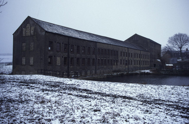 Mill at Birds Edge. Early 19th century textile mill and pond.